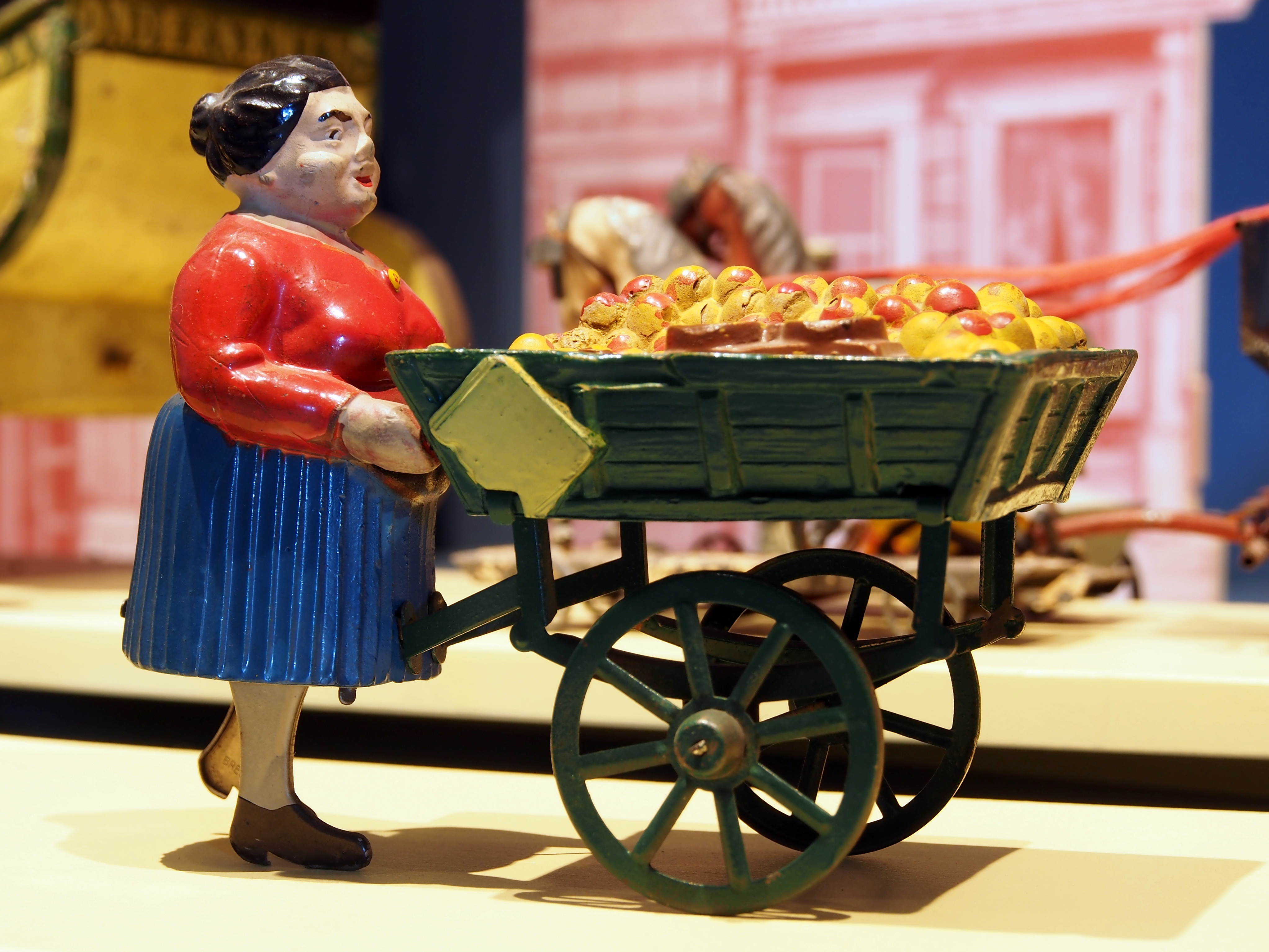 Speelgoedmuseum Deventer, clockwork wind-up tin toy, woman with handcart.